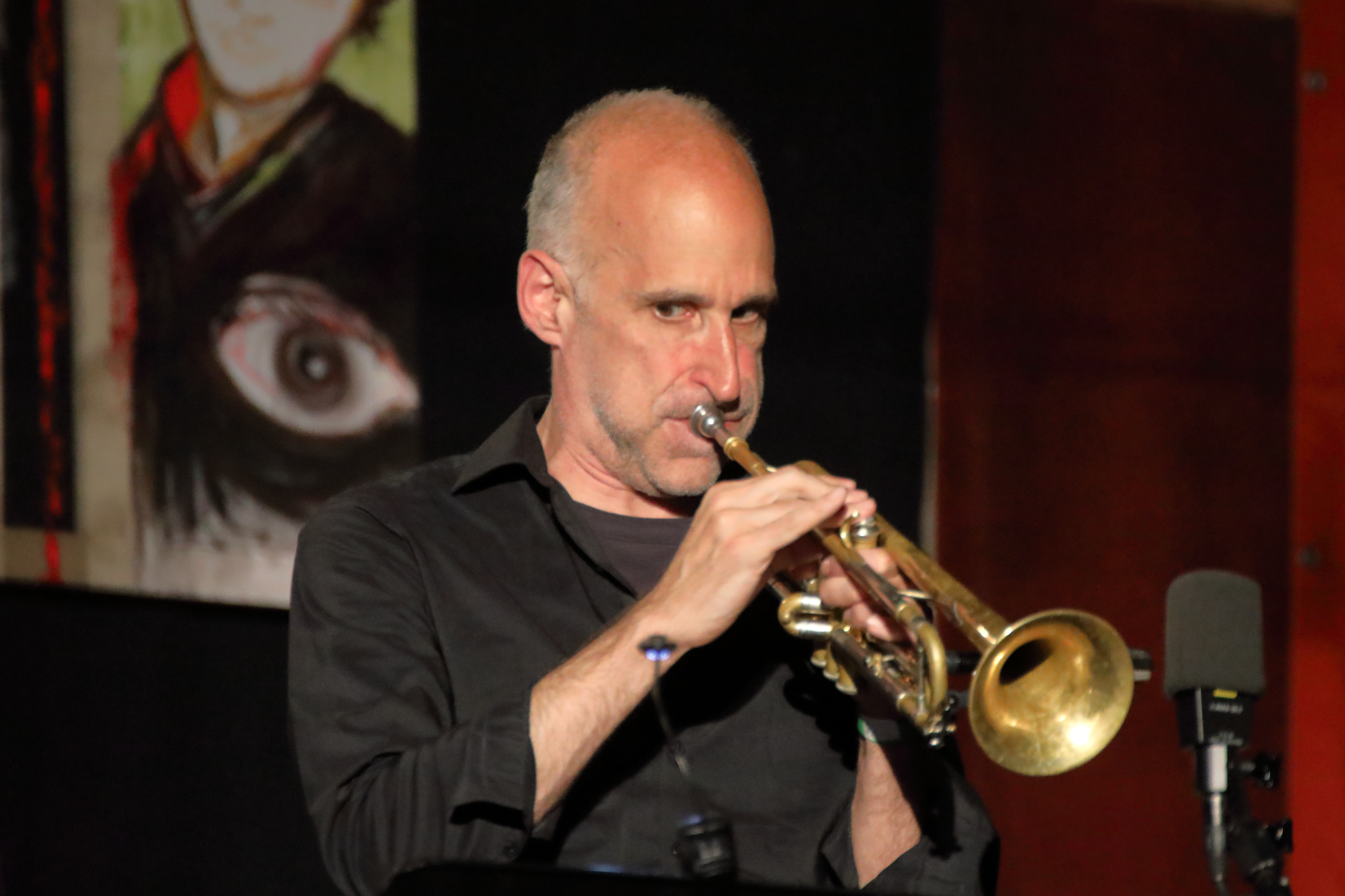 The Florian Weber Quartet with Ralph Alessi (tr) at INNtöne Jazzfestival 2019. Michel Benita (db) & Nasheet Waits (dr).